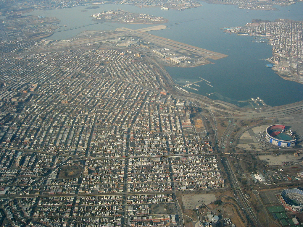 East Elmhurst and Jackson Heights; with La Guardia Airport (middle background) and Shea Stadium (right); New York City